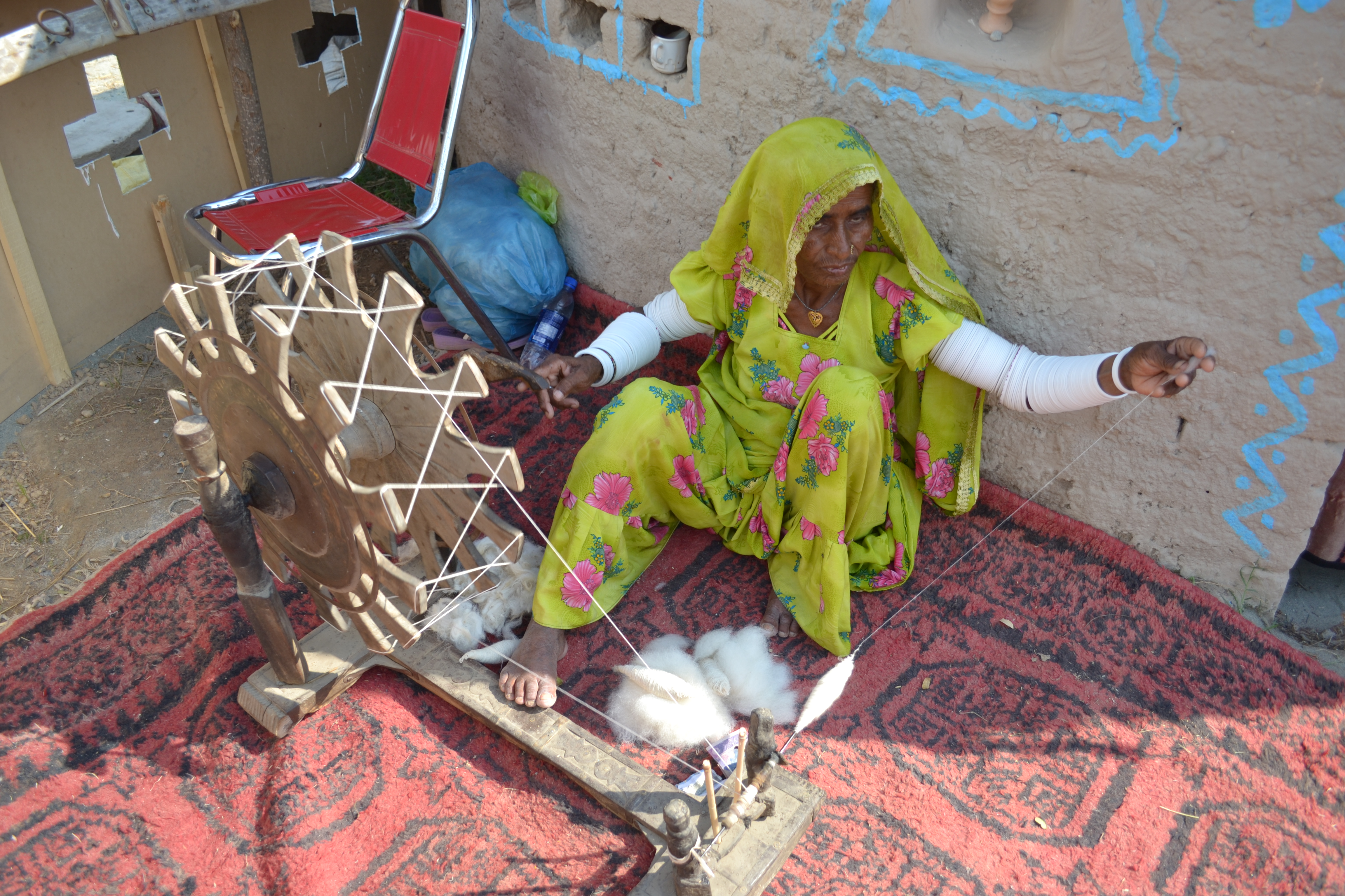 Pakistani Weaver